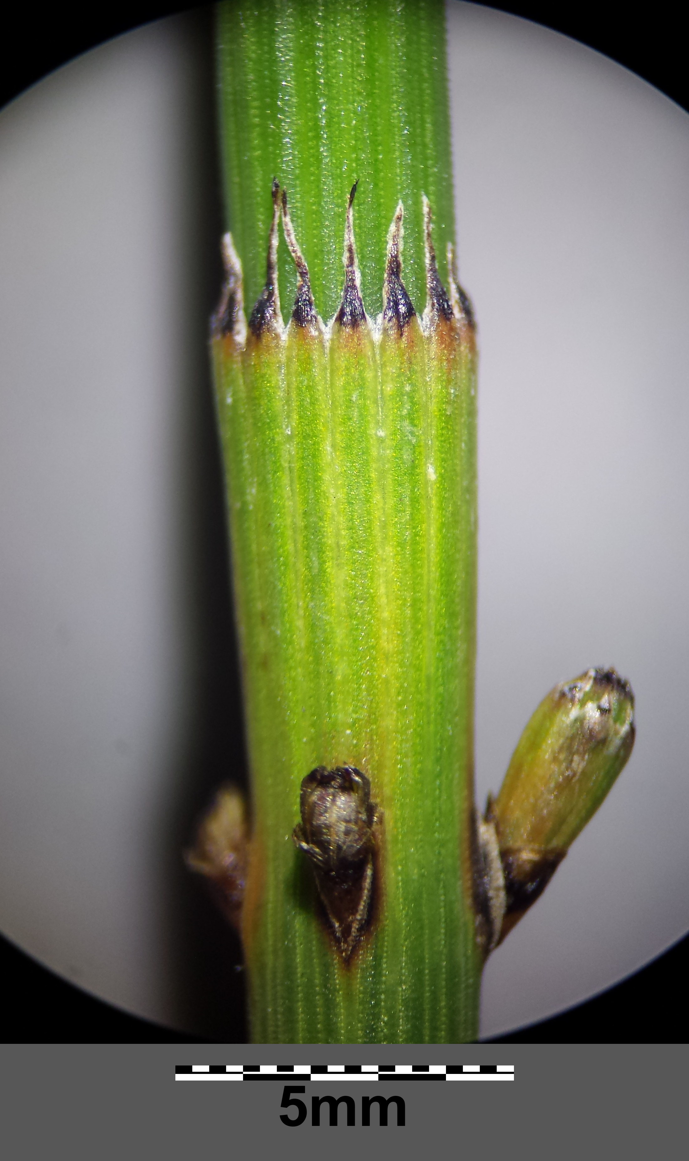 Stem with sheath with teeth Taxonym: Equisetum ramosissimum (subsp. ramosissimum) ss Fischer et al. EfÖLS 2008 ISBN 978-3-85474-187-9 Location: Floridsdorf rail station, Vienna-Floridsdorf - ca. 160 m a.s.l. Habitat: ballast